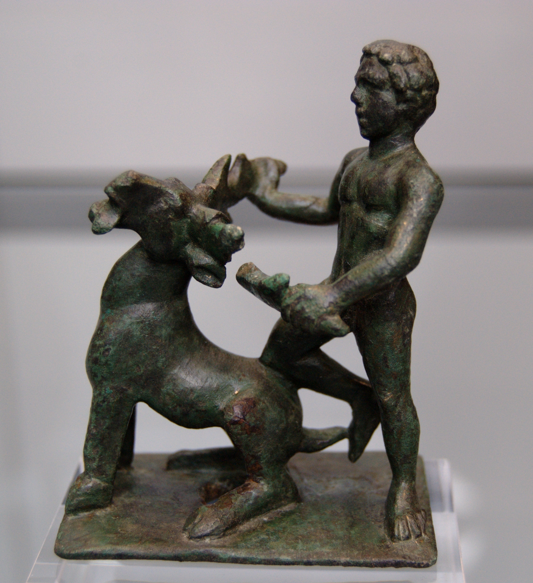 Heracles catching the Ceryneian Hind. Bonze, 1st/2nd century CE.